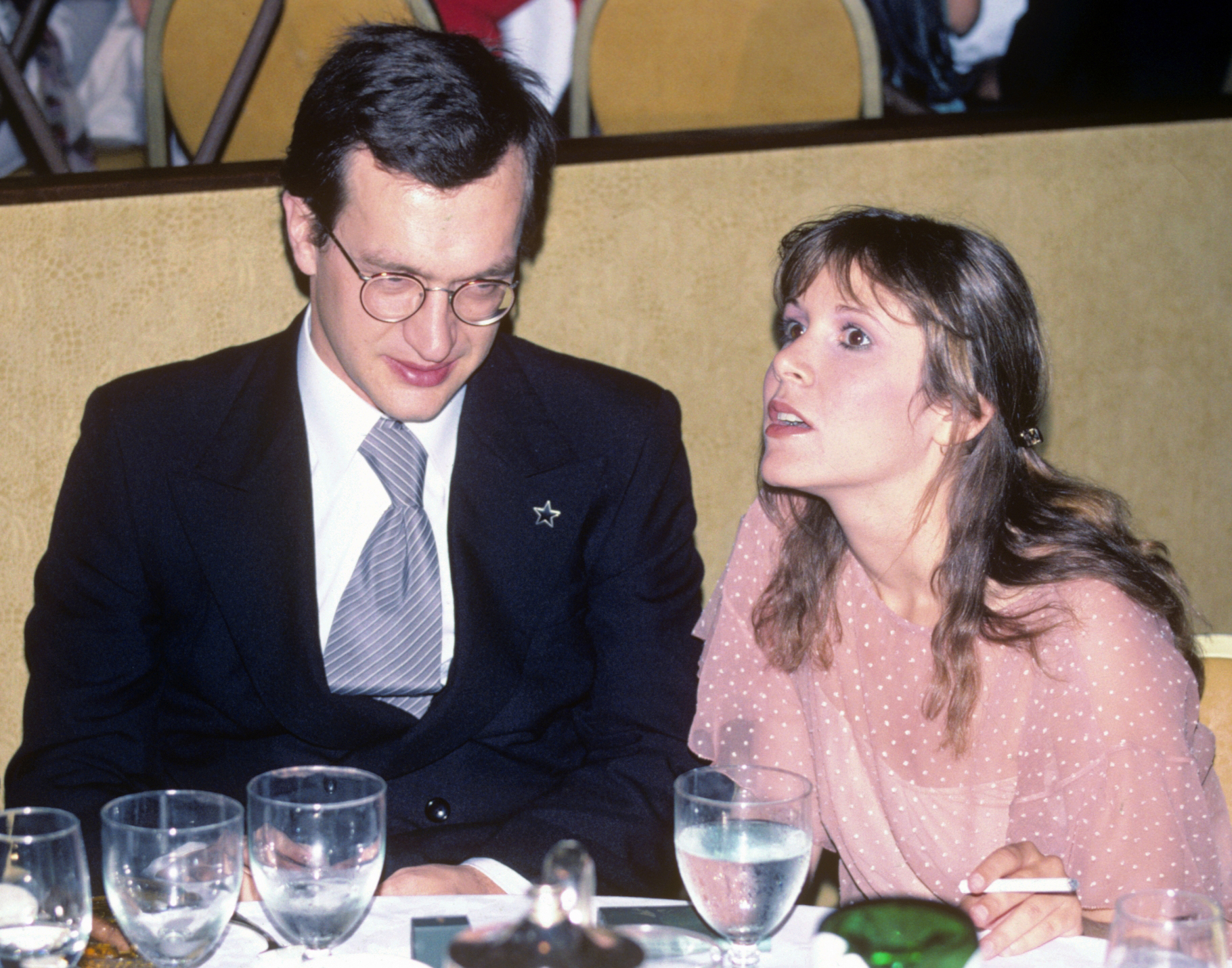 Carrie Fisher and Wim Wenders. Original text: Wim Wenders in 1978, here with Carrie Fisher - Photo taken at the private party after the premiere of the movie FIST, 1978.